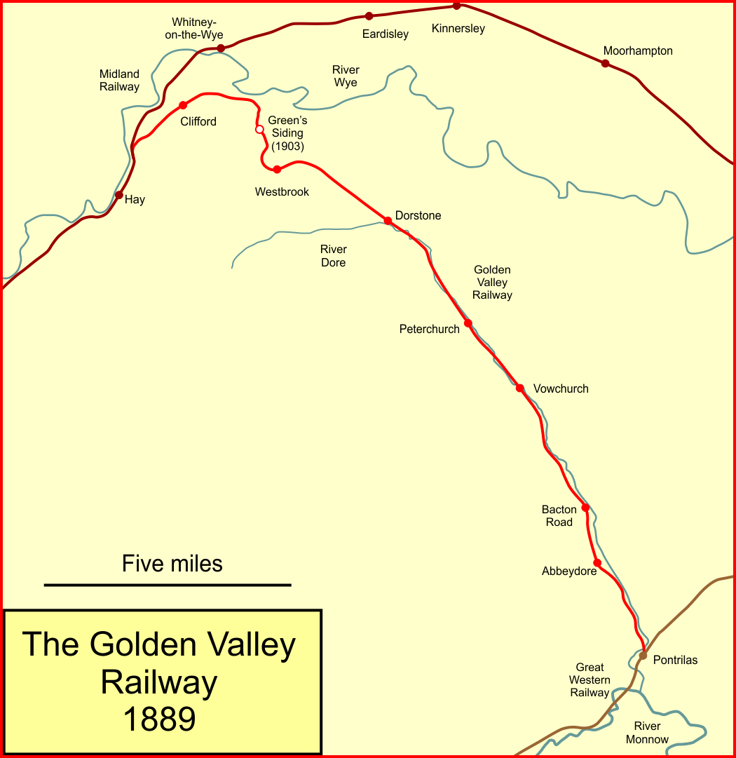 System map of the Golden Valley Railway, Herefordshire, England, in 1889